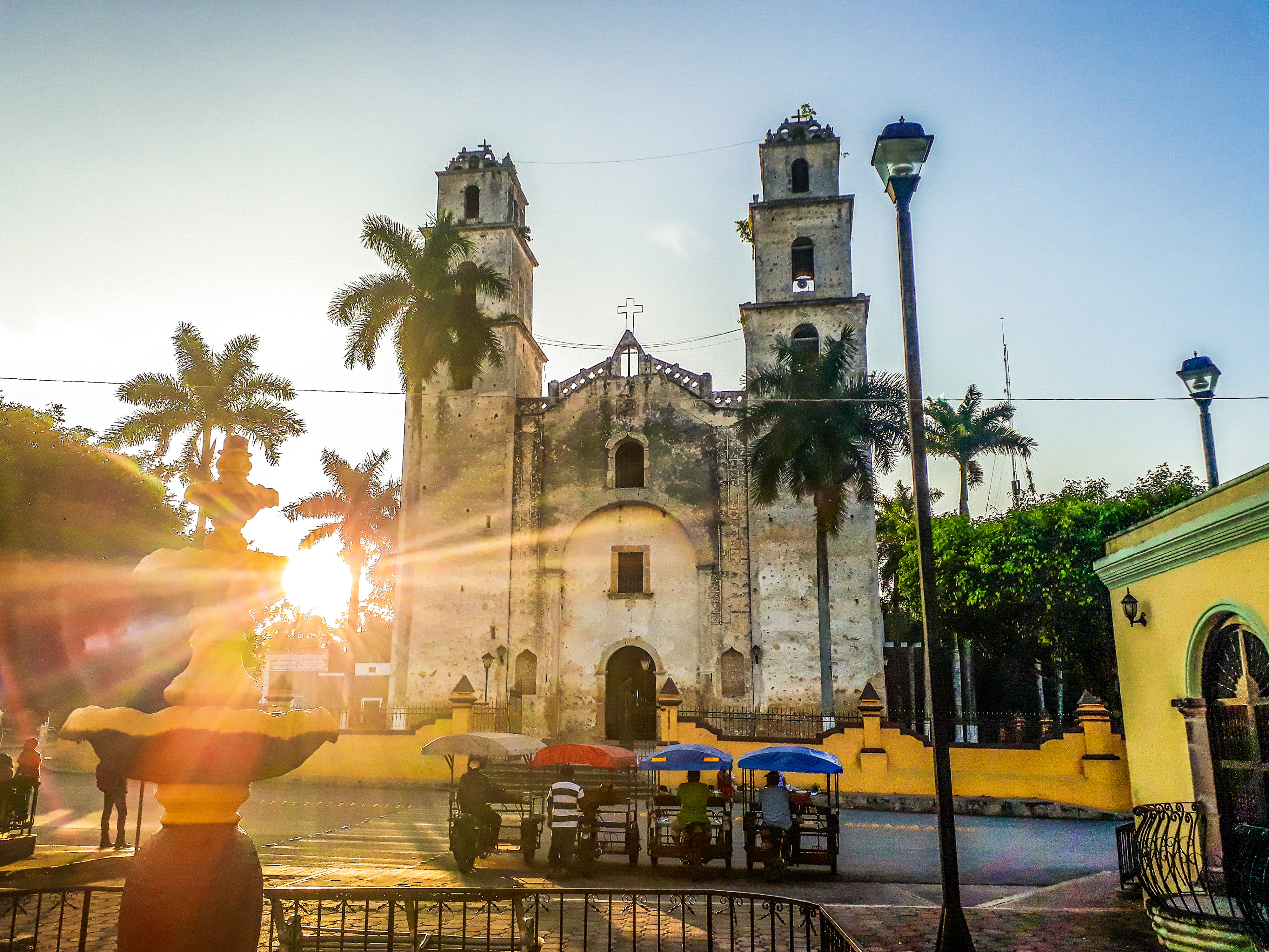 Morning in Espita, Yucatán.